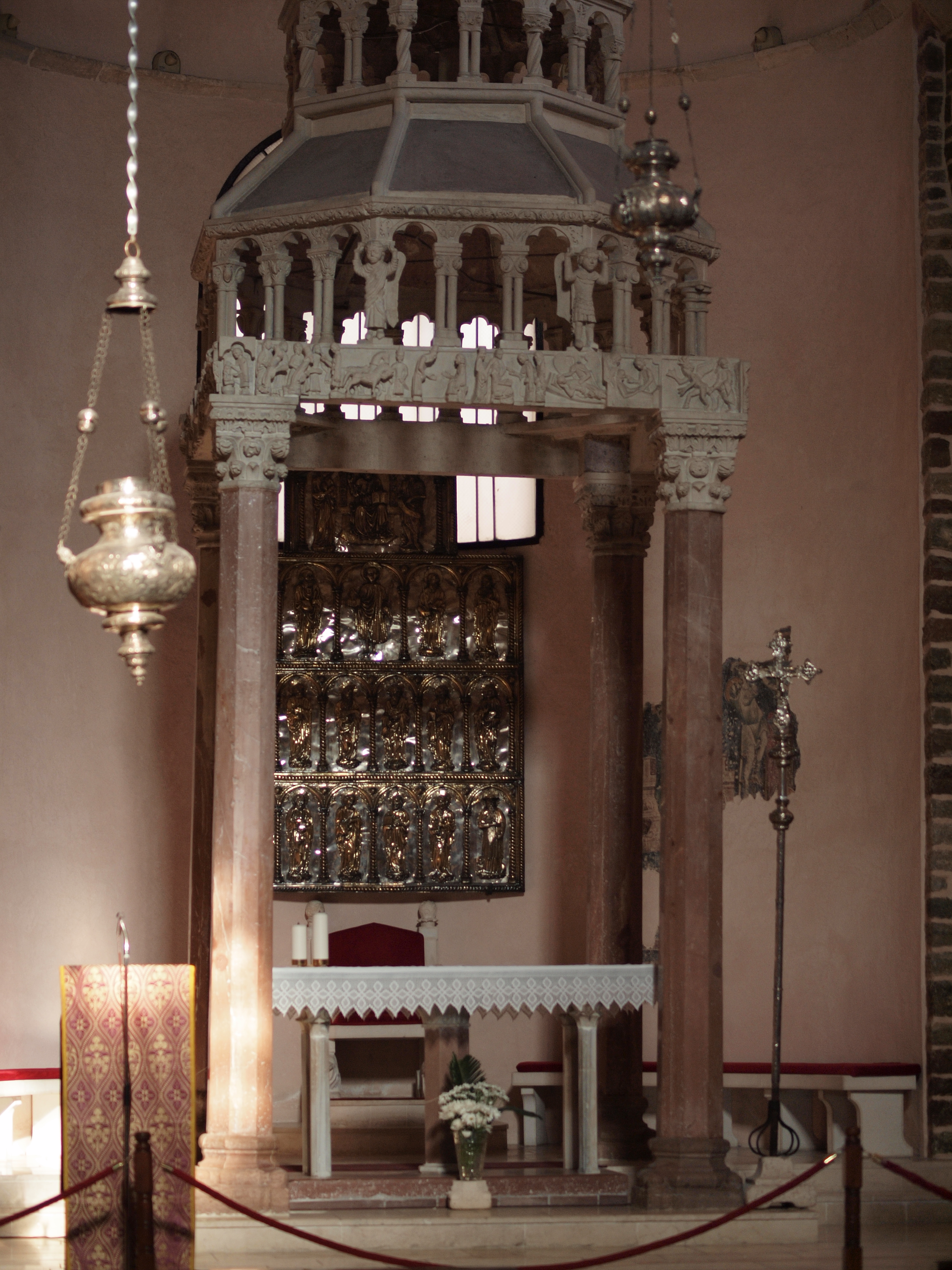 Kotor cathedral